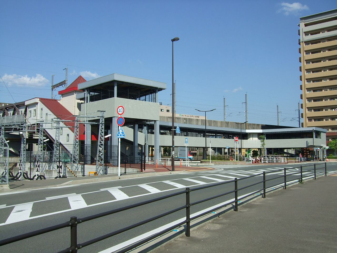 JR Kyushu Kagoshima Line Takeshita Station (West Entrance), Hakata Ward, Fukuoka City, Fukuoka, Japan.